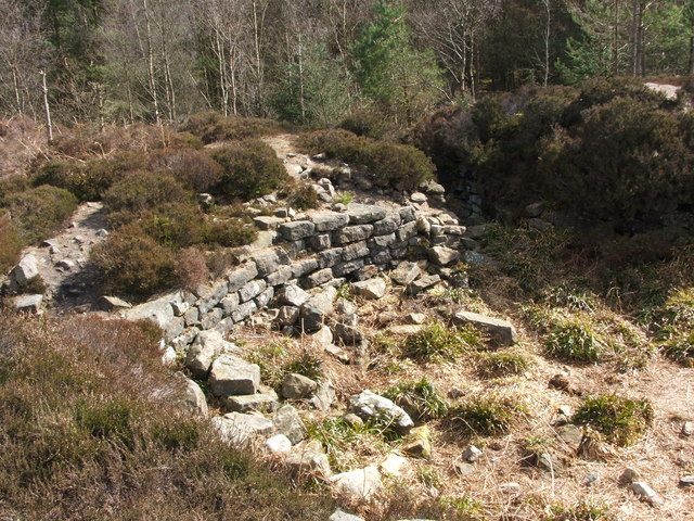 Tappoch Broch - eastern side [For a summary of the features of this broch, see the note at the end of this article.] This is one of a series of photographs illustrating various features of the surviving walls of the broch; for the other photographs, see 1024967 / 1024931 / 1024954. In Scotland, the Iron Age, when this structure was built, was the period from about 750 BC to about 100 AD. Brochs are usually found only in the north and west of Scotland, but Tappoch Broch is one of only a few southern examples. A number of interesting features can still be seen in the interior; this contrasts greatly with the outside of the broch, which simply presents the appearance of a large mound: 1024864. The present photo is a view of the eastern side of the broch, taken while standing on the northern part of the wall-head. A gap in the wall, just above and to the right of centre in this image, is one end of the passage that formed the main entrance of the broch. At the time of the first excavation, this passage had a double lintel; at the time of writing, only a single lintel stone remains. The features of this broch, as it might originally have appeared, are perhaps best exemplified in the exceptionally well-preserved Broch of Mousa: HU4523. Another very fine example is Dùn Chàrlabhaigh: NB1941. For further details of this site, see the chapter on Torwood Broch in Susan Hothersall's "Archaeology Around Glasgow". (at Canmore) for full details, and for some aerial photographs. [A technical note on positioning: from the 1:50000 and 1:25000 maps, it is debatable whether the broch straddles an OS grid-line or not. While re-examining the broch on 26-OCT-2009, I was able to confirm, after taking multiple GPS readings, that the wall-head of the broch (and therefore its interior) lies entirely within the gridsquare NS8384.]